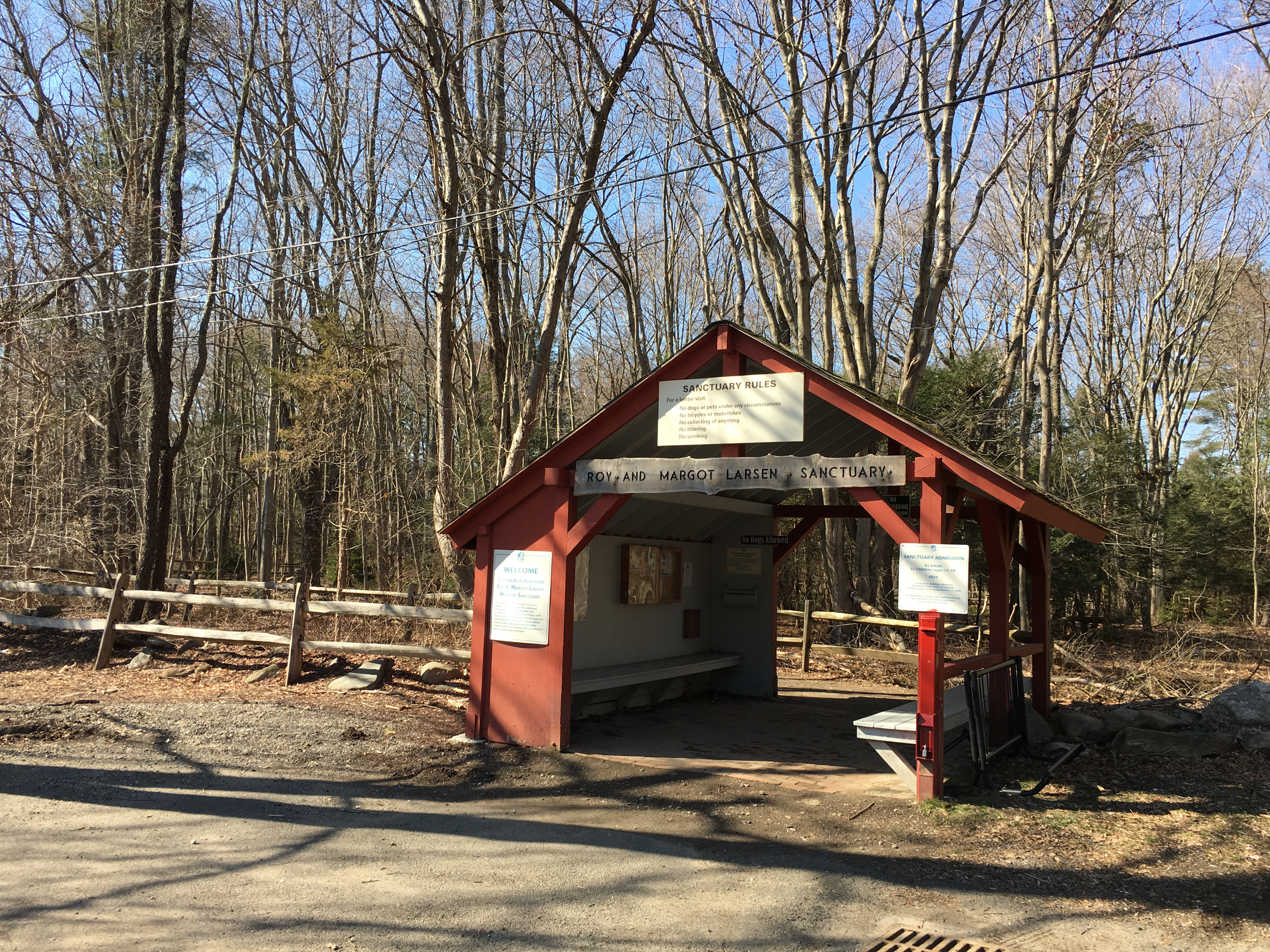 The Connecticut Audubon Society Center at Fairfield protects the 155-acre Roy and Margot Larsen Wildlife Sanctuary.